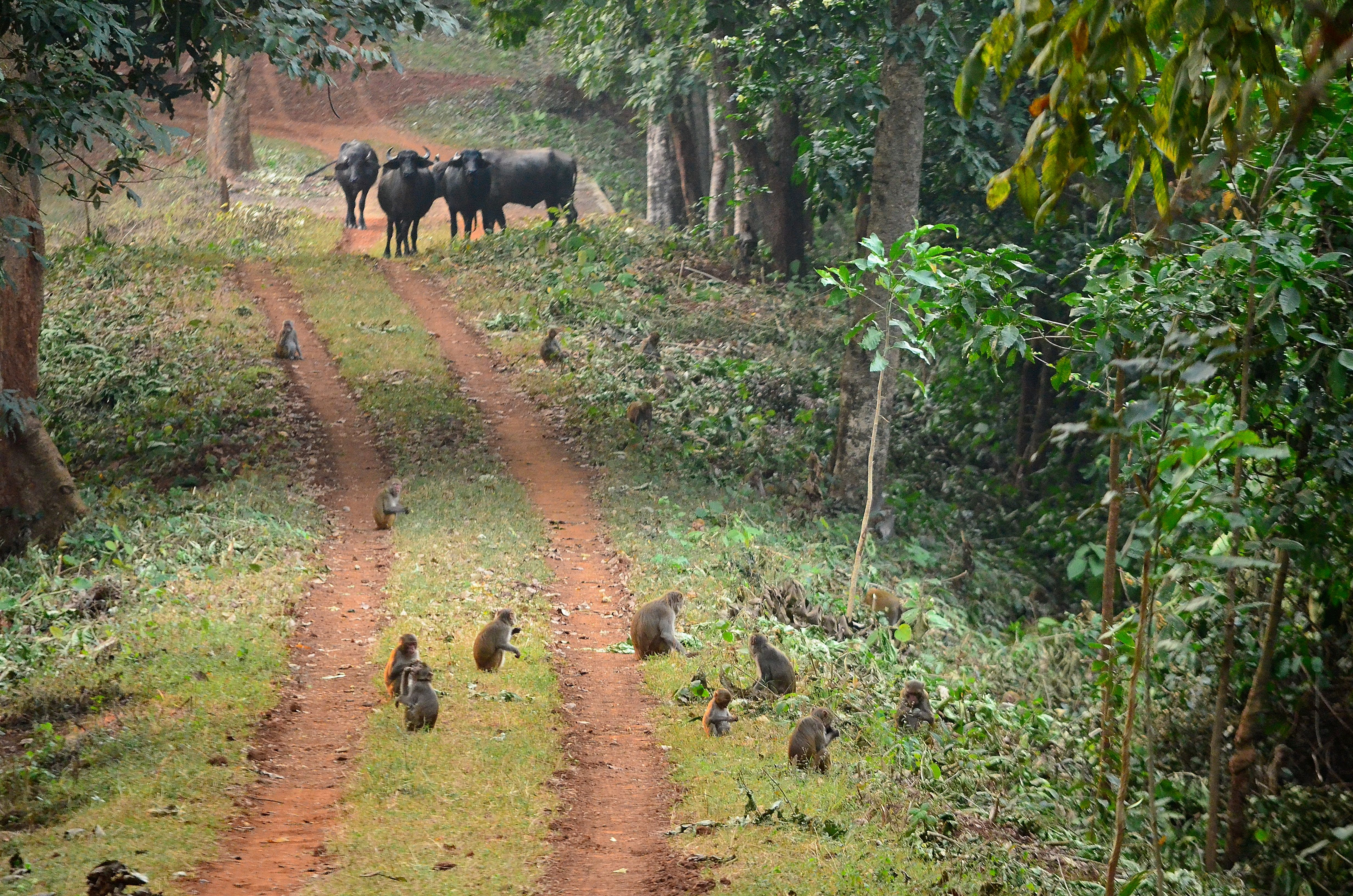 Troop of Rhesus Macaques alongside Indian Water Buffalo inside Dalma Wildlife Sanctuary.